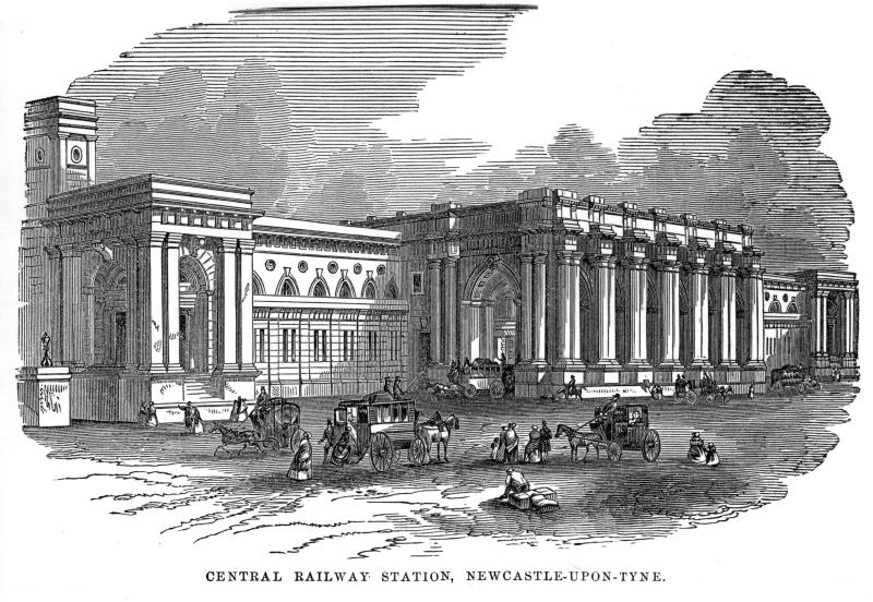 An etching of Newcastle central railway station published in 1867